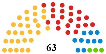 Stockport Council Composition 2014 after Local Elections 22nd May 2014. Changes to Liberal Democrats down 1, Labour up 1.